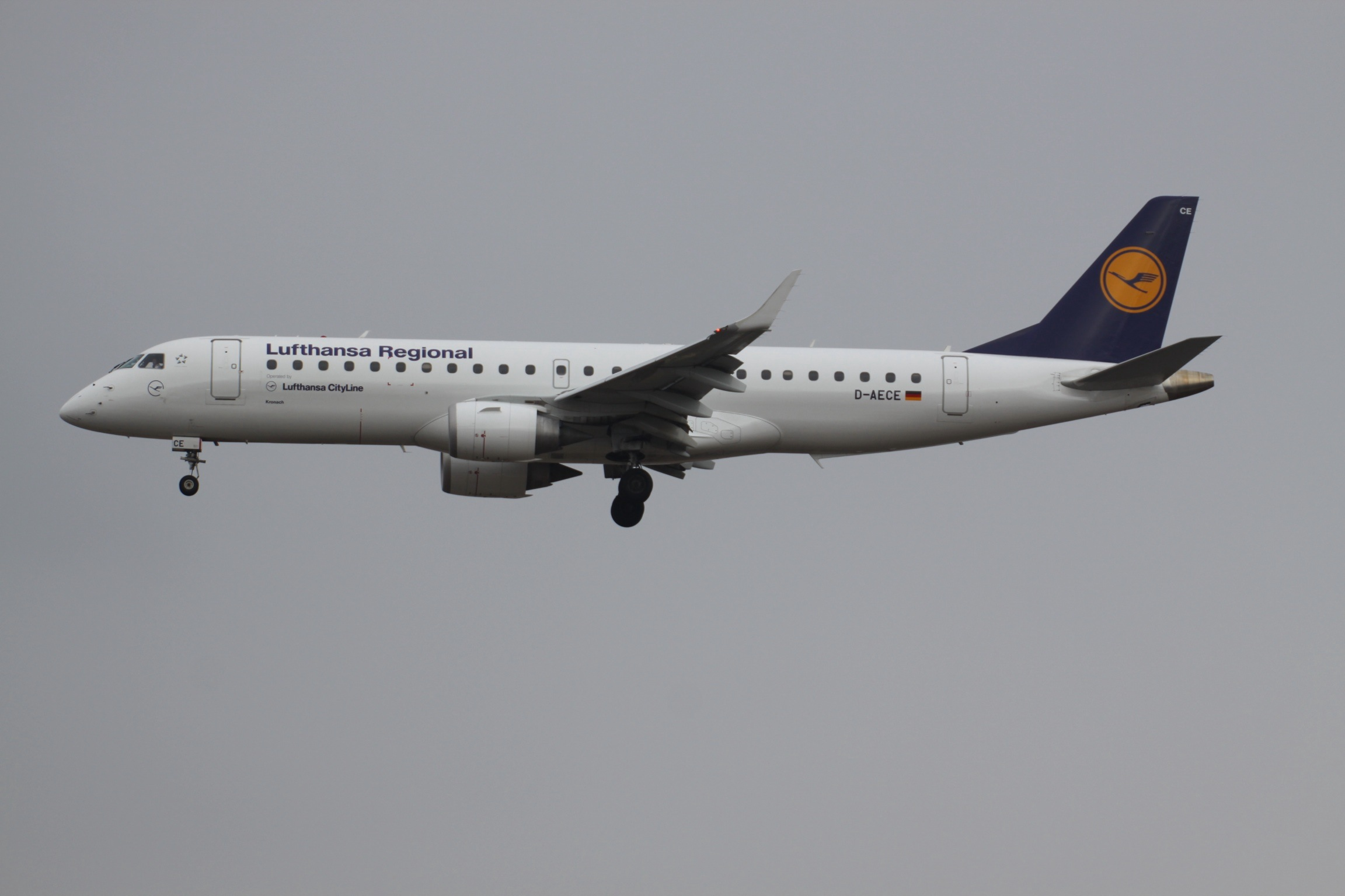 At Frankfurt Main